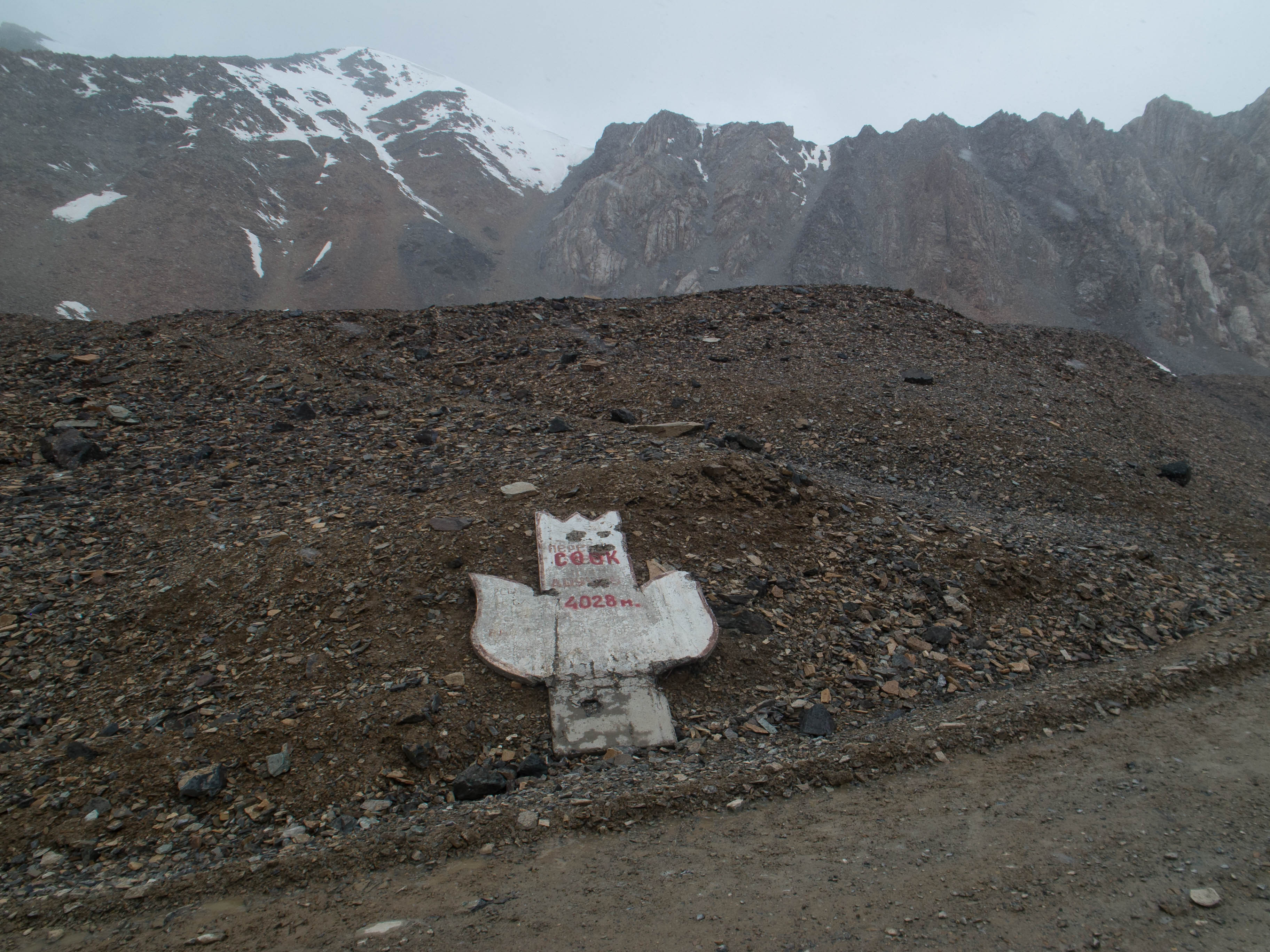 Roadside marker at Seok Pass (Söök Pass) in Kyrgyzstan, altitude 4028m